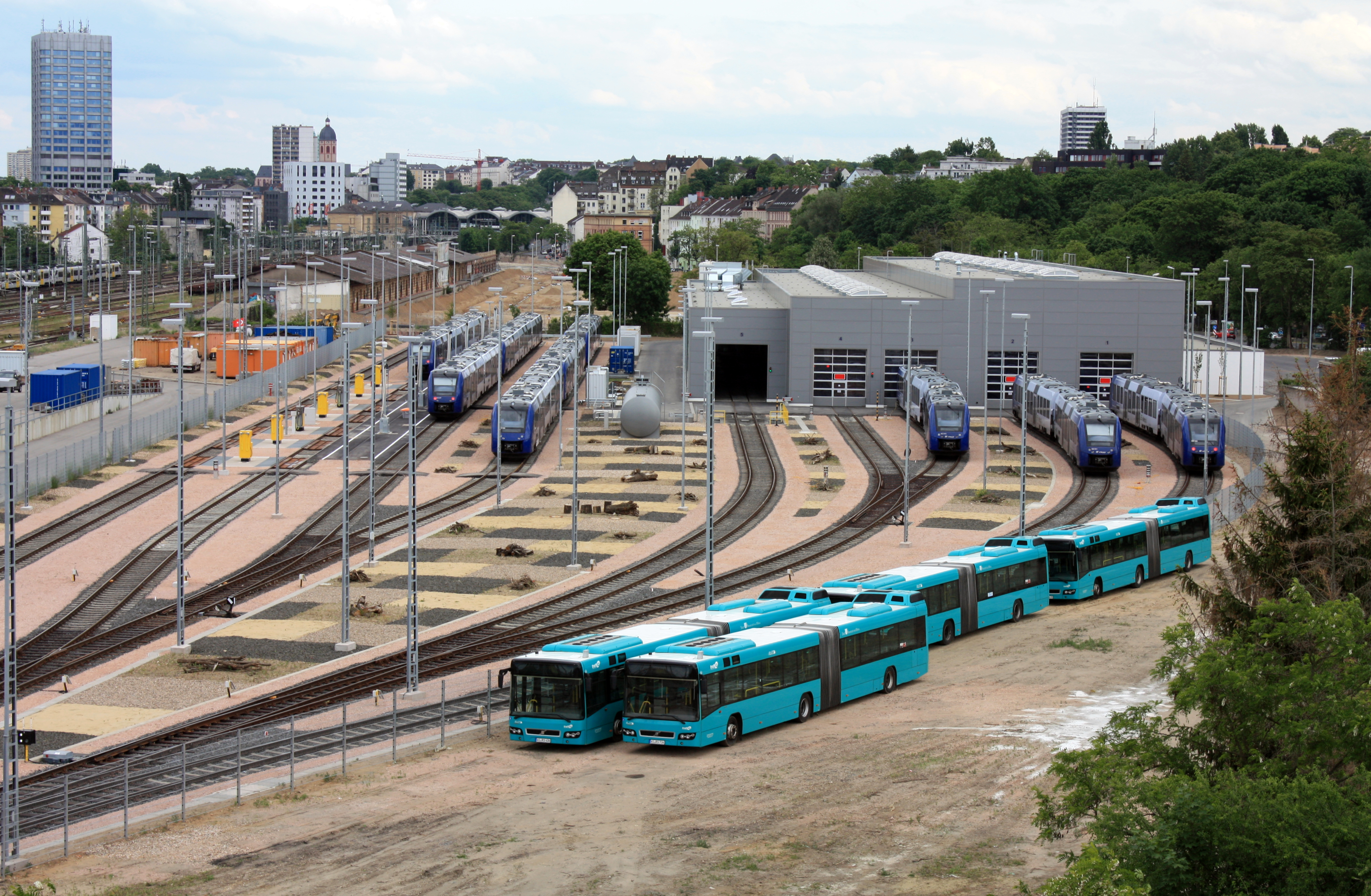 Railway depot in Mainz, Germany 2015